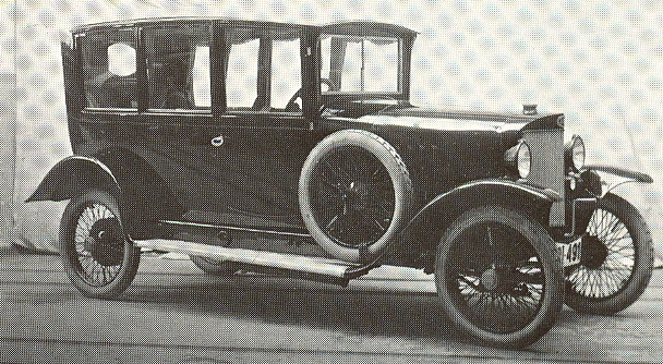 Steyr IV Saloon (1923)